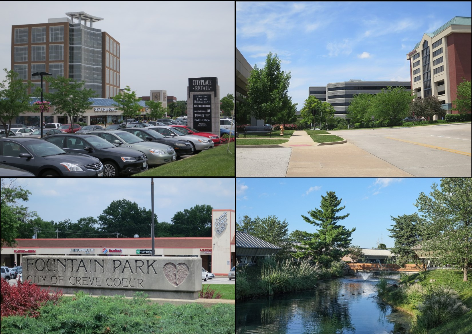 Creve Coeur, MO compilation of images